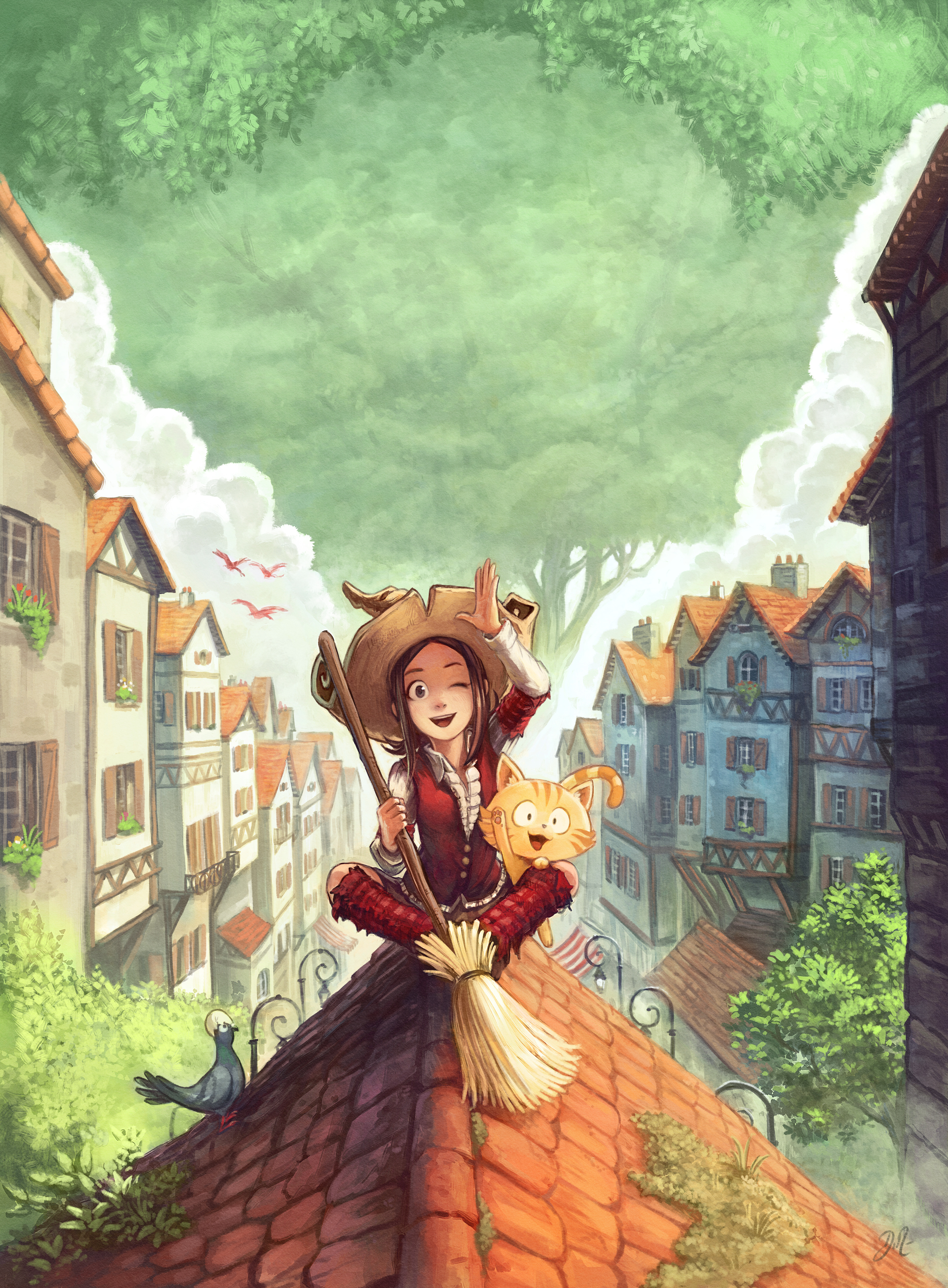 The third cover art of Pepper & Carrot by David Revoy. Drawing done in Krita.